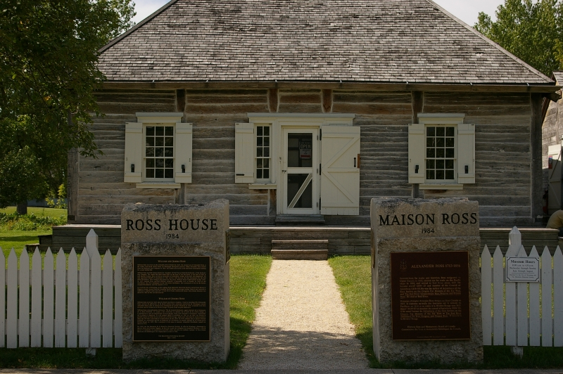 Ross House museum located in Joe Zuken Heritage Park. Winnipeg Manitoba Canada